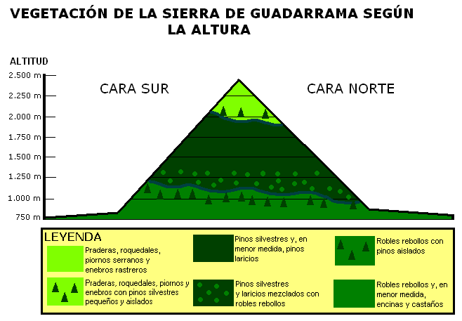 Outline of the vegetation of the Guadarrama mountain range (central Spain) according to altitude and orientation. Texts in Spanish.